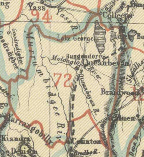 The Land District of Queanbeyan (marked as "72")